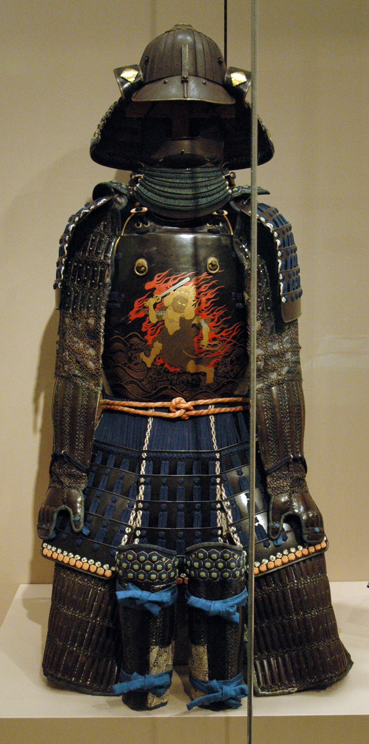 A complete suit of samurai armour from the collection of the Asian Art Museum in San Francisco.